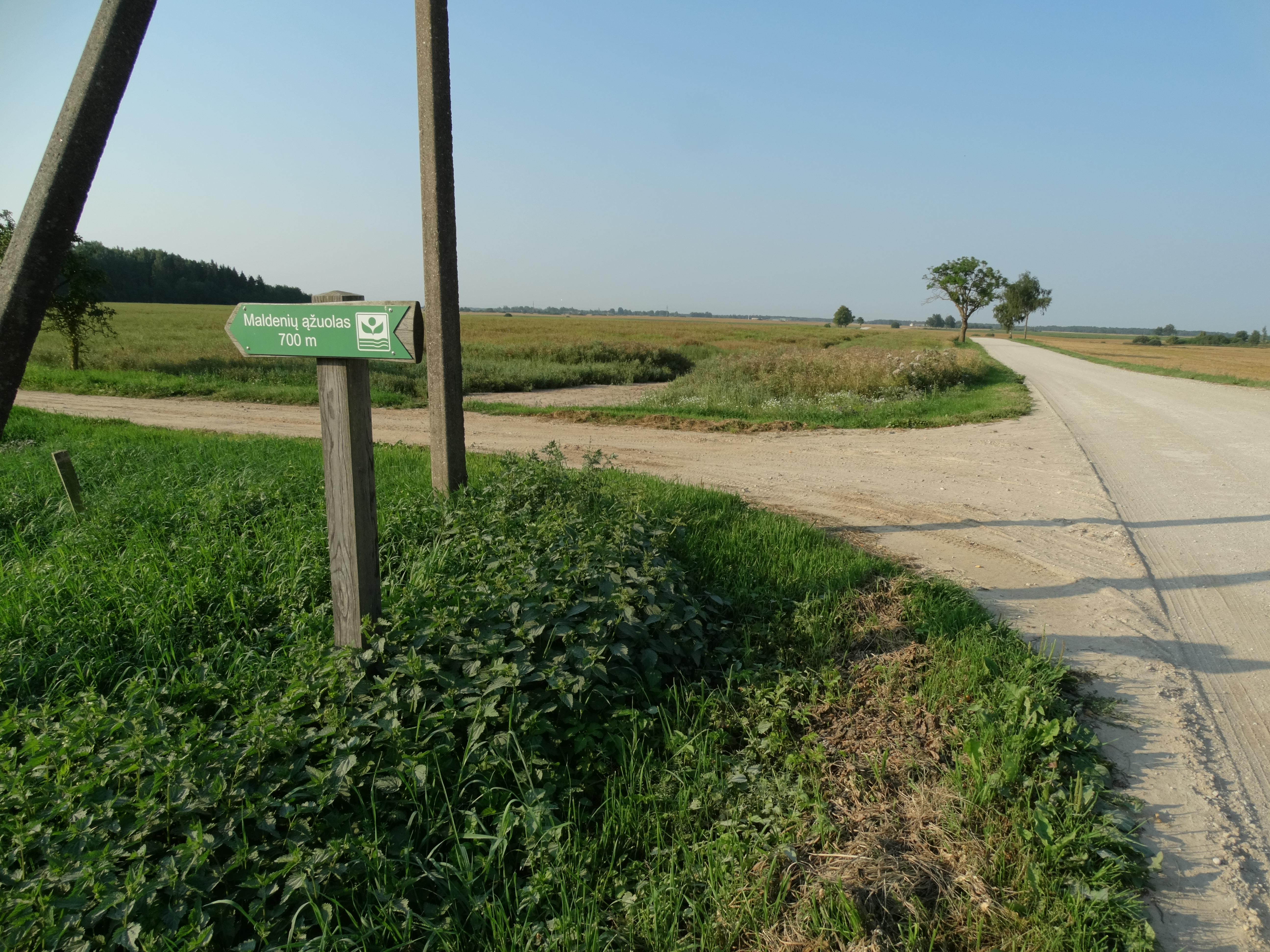 Pointer to Maldeniai oak, Joniškis District, Lithuania